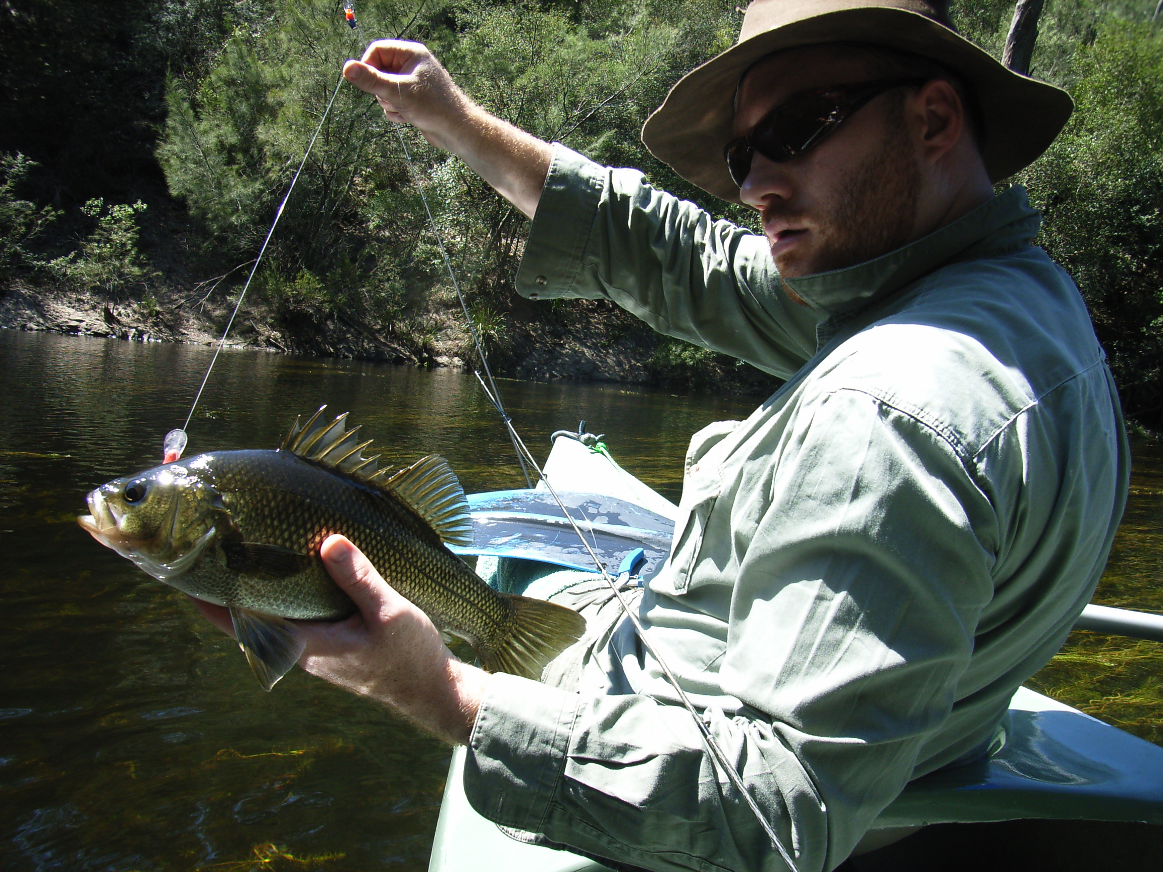 A magnificent wild Australian bass, caught during a canoe trip on a coastal river in New South Wales, Australia. This Australian bass was caught on a lure equipped with barbless hooks and was carefully released after the photo.